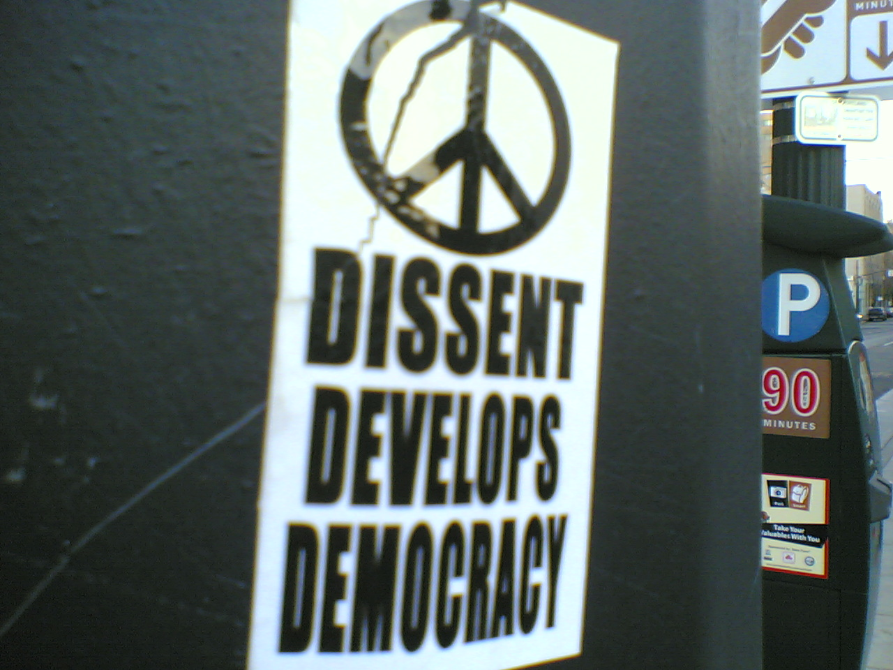 Sticker advocating dissent: "dissent develops democracy", accompanied by a peace symbol. Photo taken in Portland, Oregon.